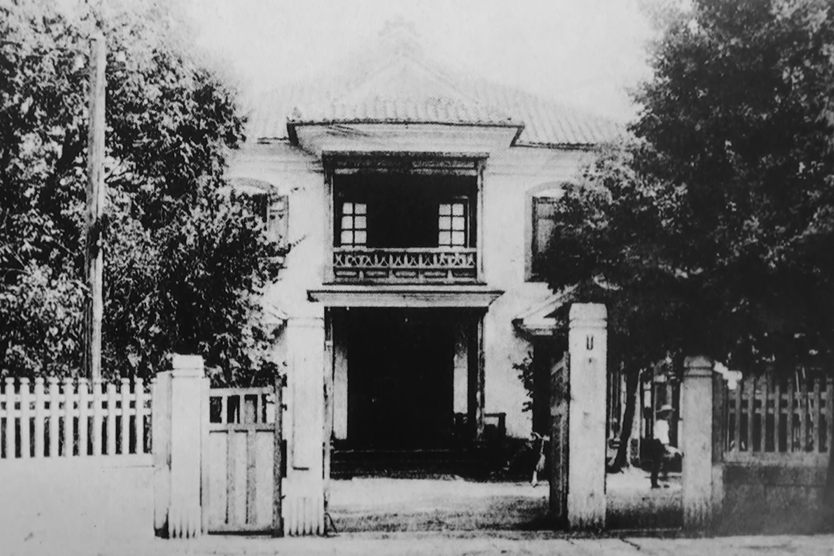 Nishiyamanashi District Government Office Circa 1900